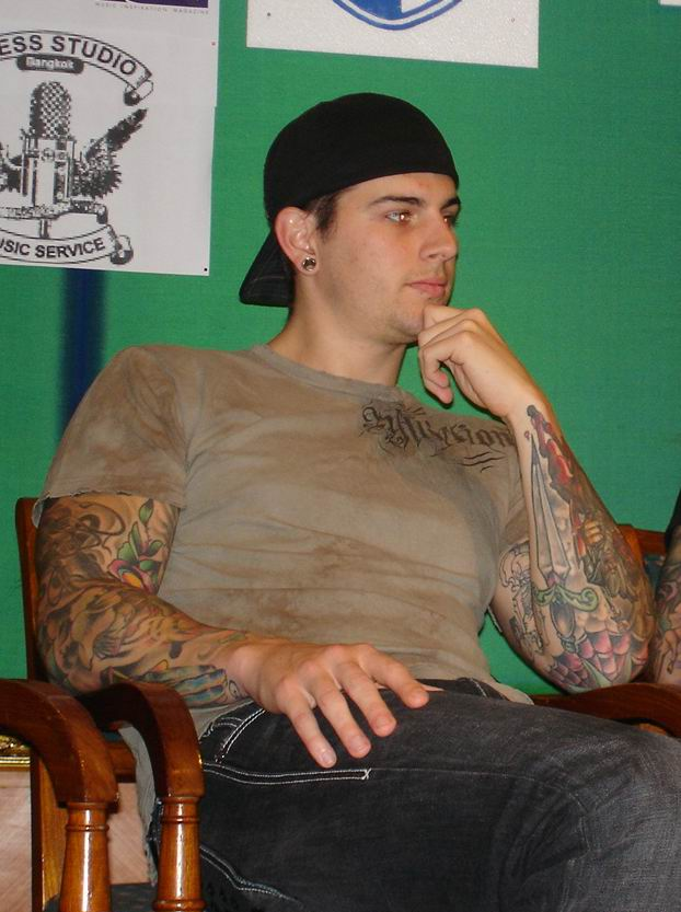 M. Shadows (Matthew Charles Sanders) ,Lead singer from Avenged Sevenfold